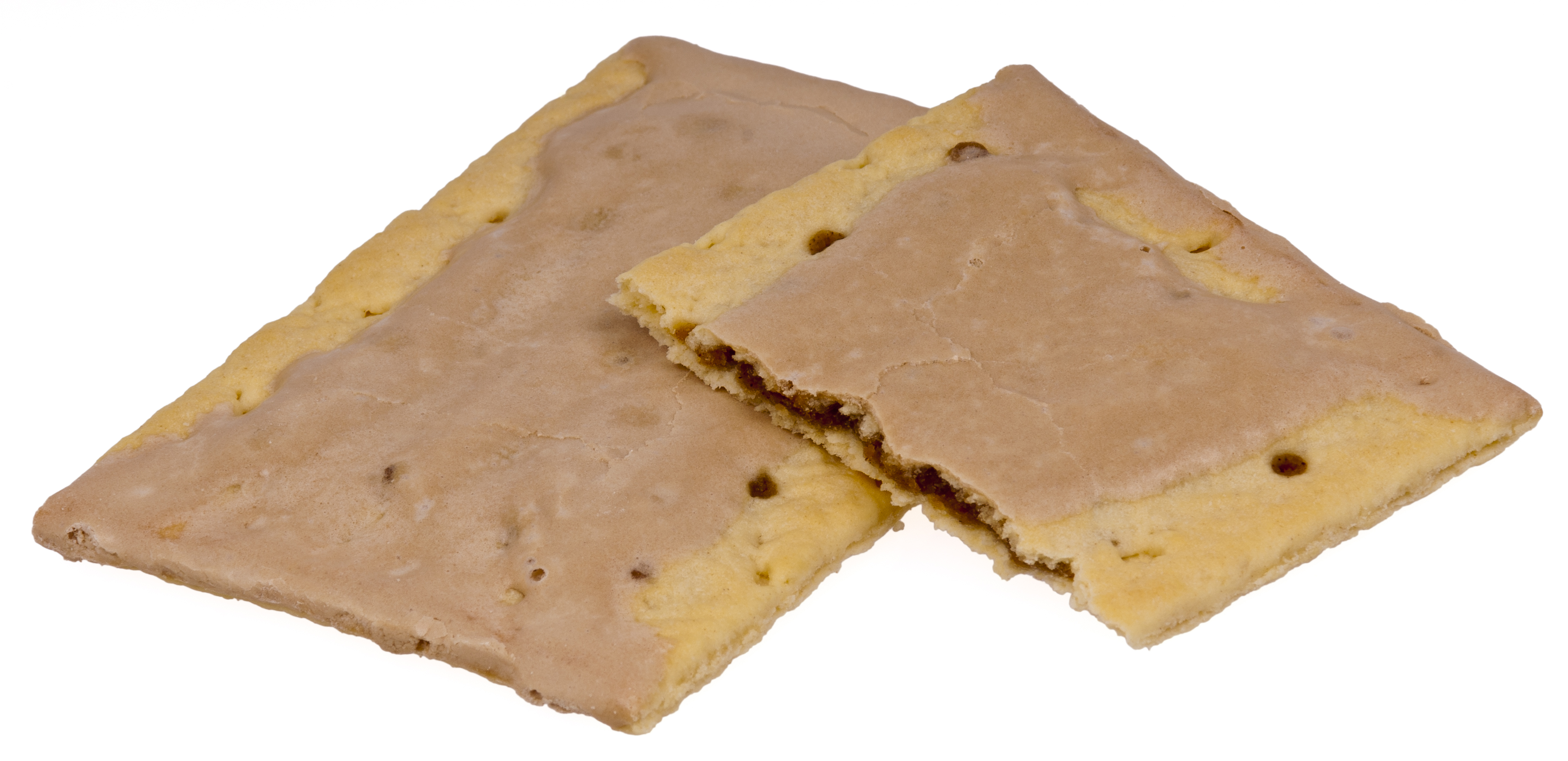 Brown Sugar Cinnamon Pop-Tarts. Breakfast pastries sold in America.